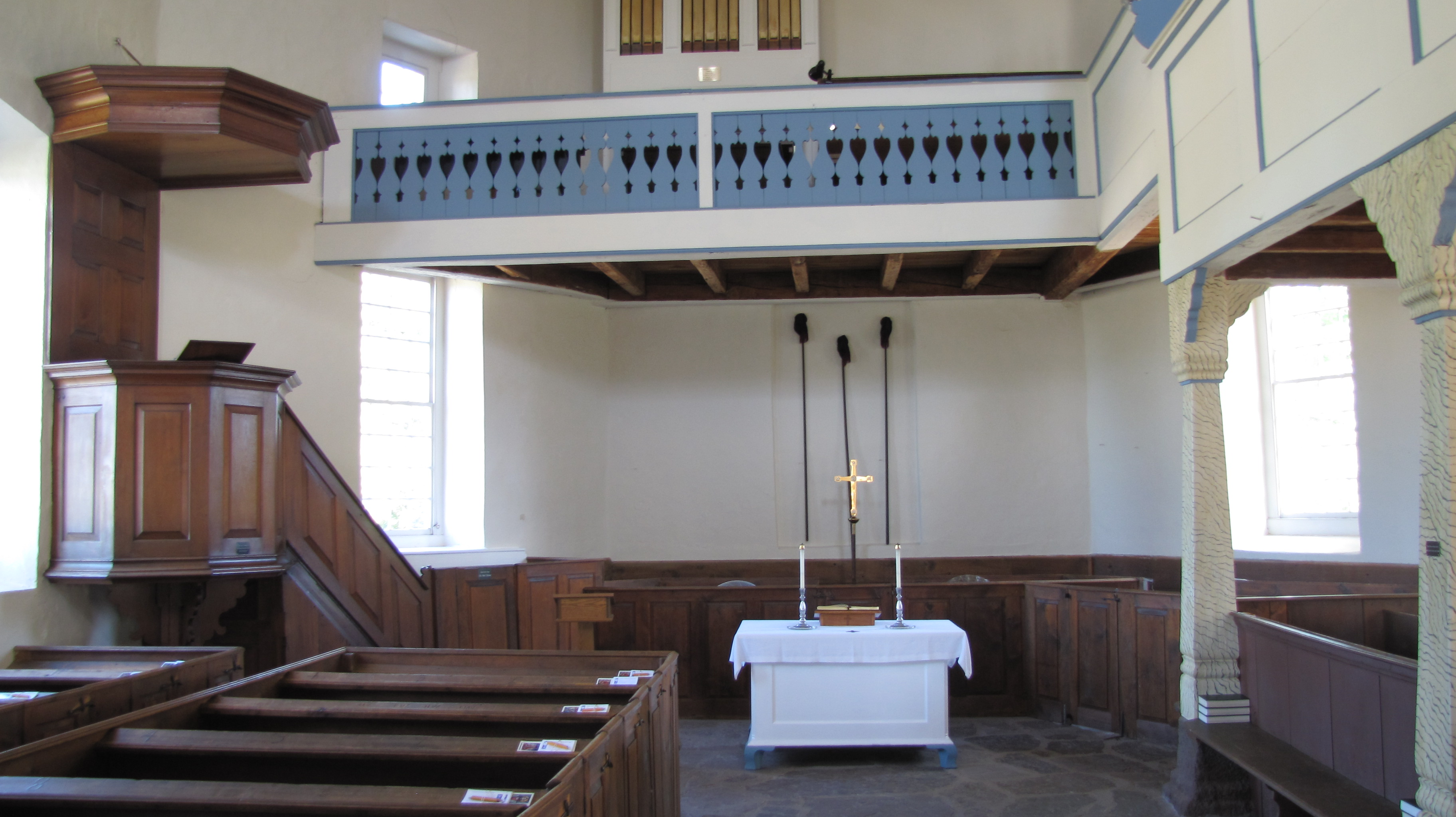 Augustus Lutheran Church, Trappe, PA Interior of Augustus Lutheran Church